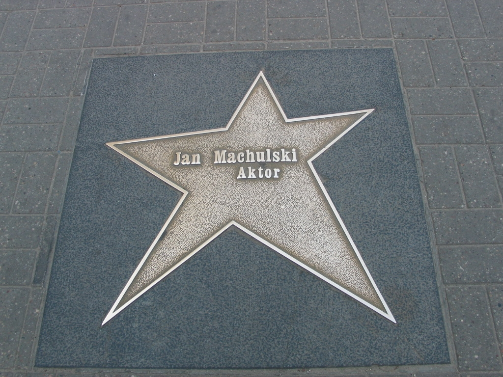 Łódź Walk of Fame - Jan Machulski